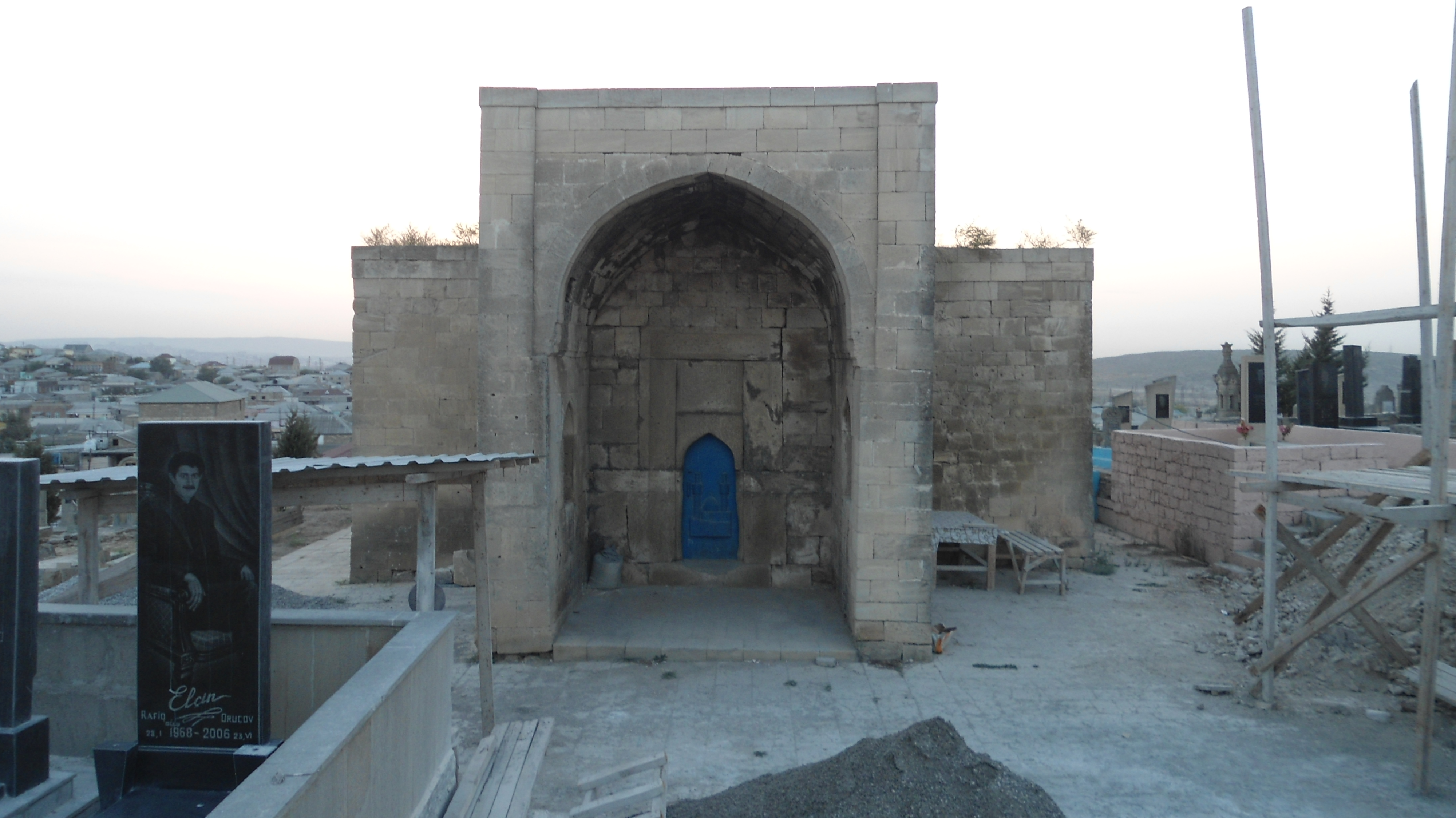 Shakiragha tomb. Was built in 1427-1428.